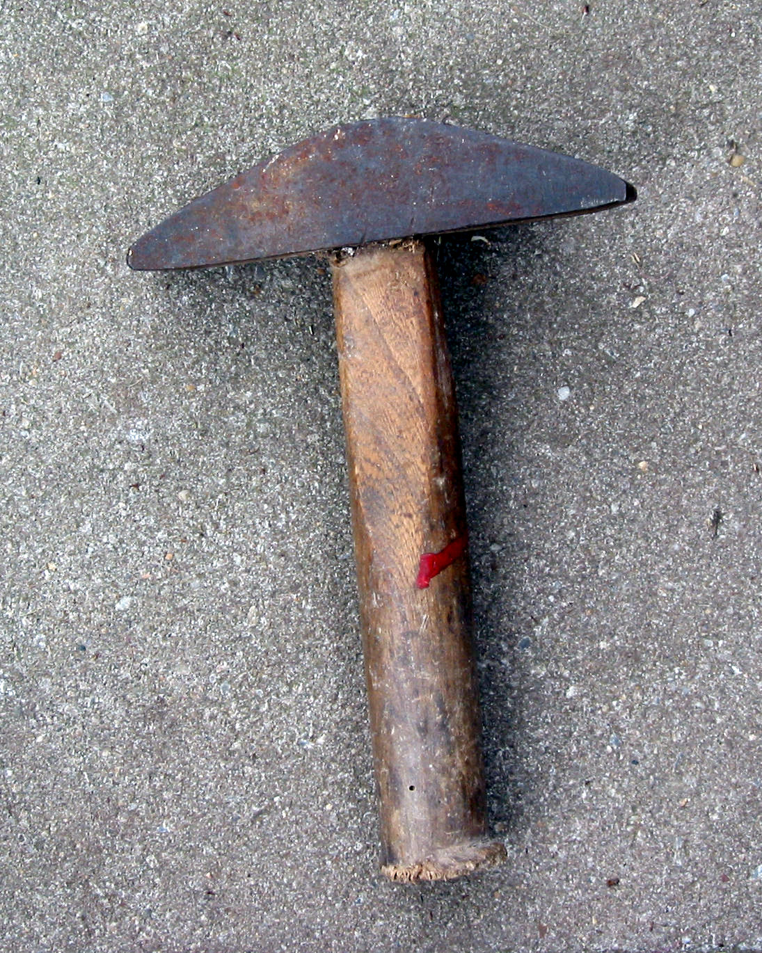 Hammer for scythe sharpening